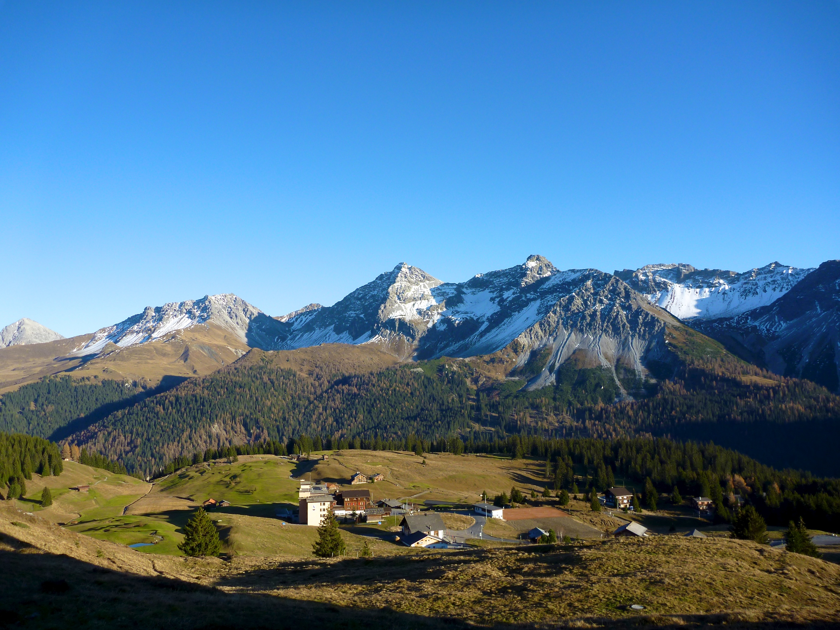 alp Maran, with Arosa Dolomites mountains